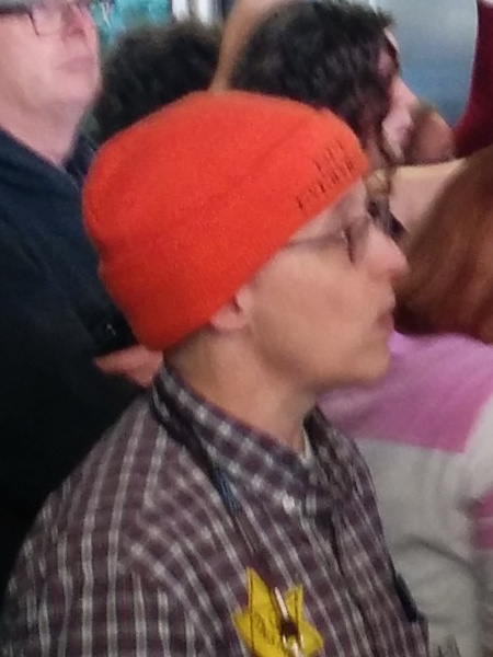 Jenni Olson at an SFO protest against Donald Trump's "Protecting the Nation from Foreign Terrorist Entry into the United States" executive order.